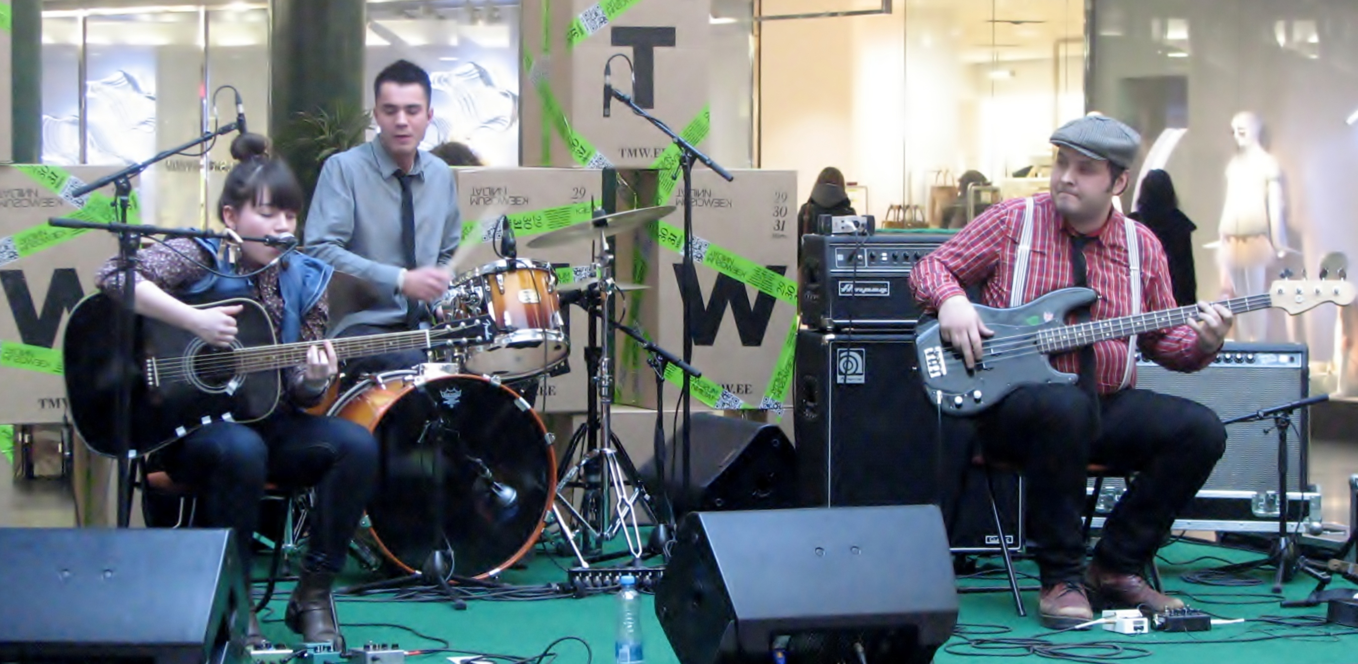 Estonian band Sibyl Vane performing in Tallinn Music Week 2012